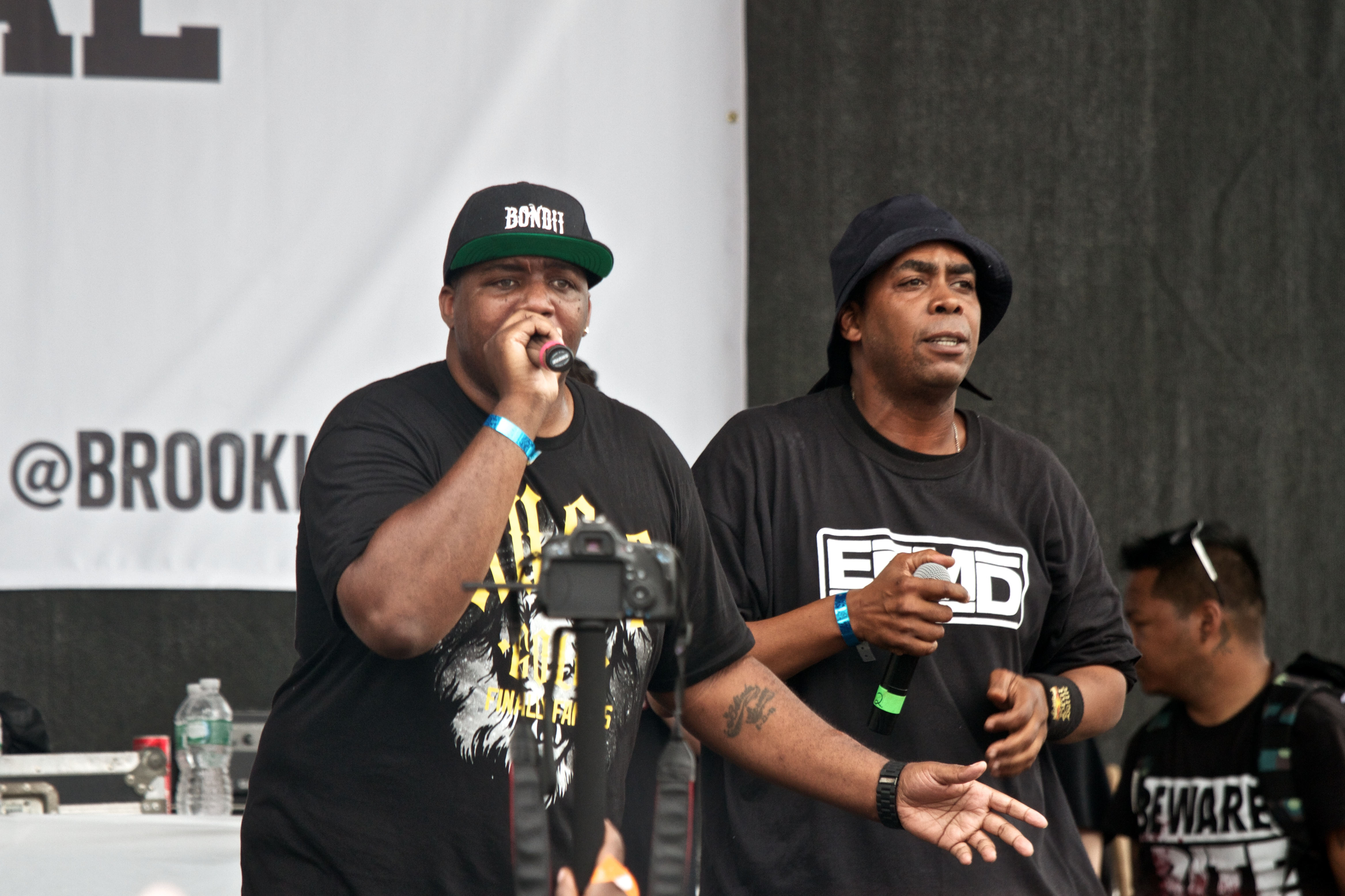 EPMD at Brooklyn Hip-Hop Festival 2013